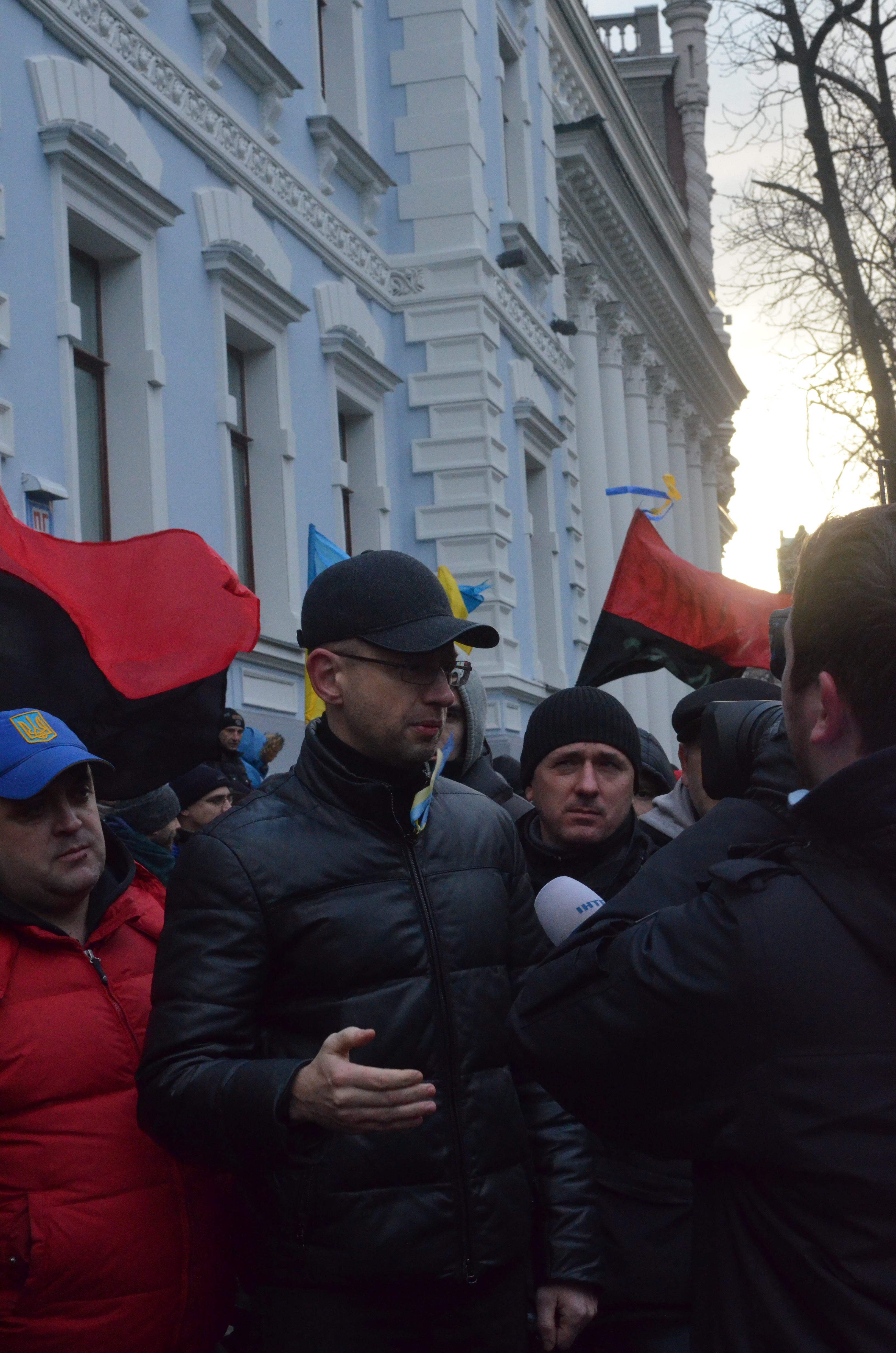 Yatsenyuk, Cabinet of Ministers Blockage